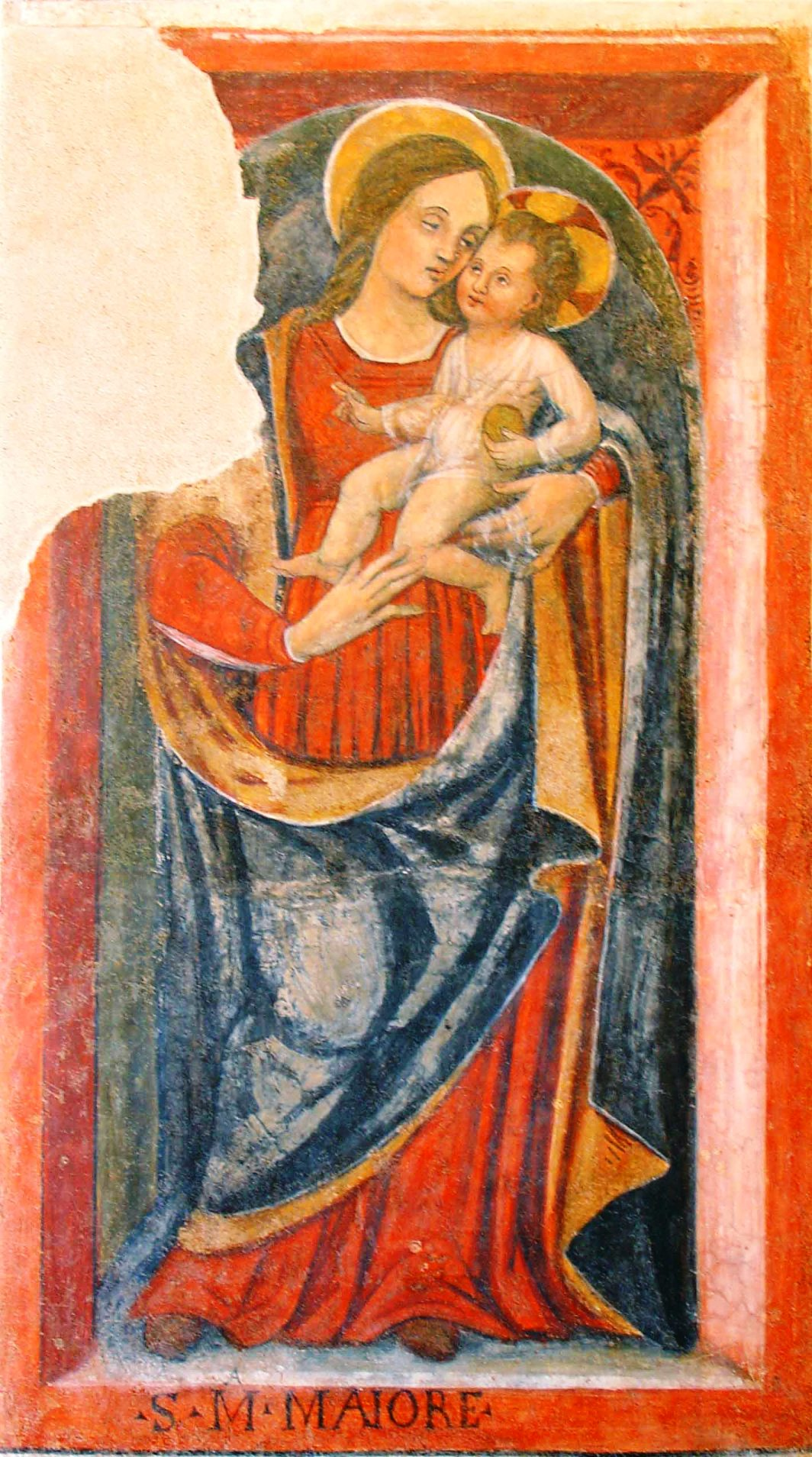 Fresco in Maratea.